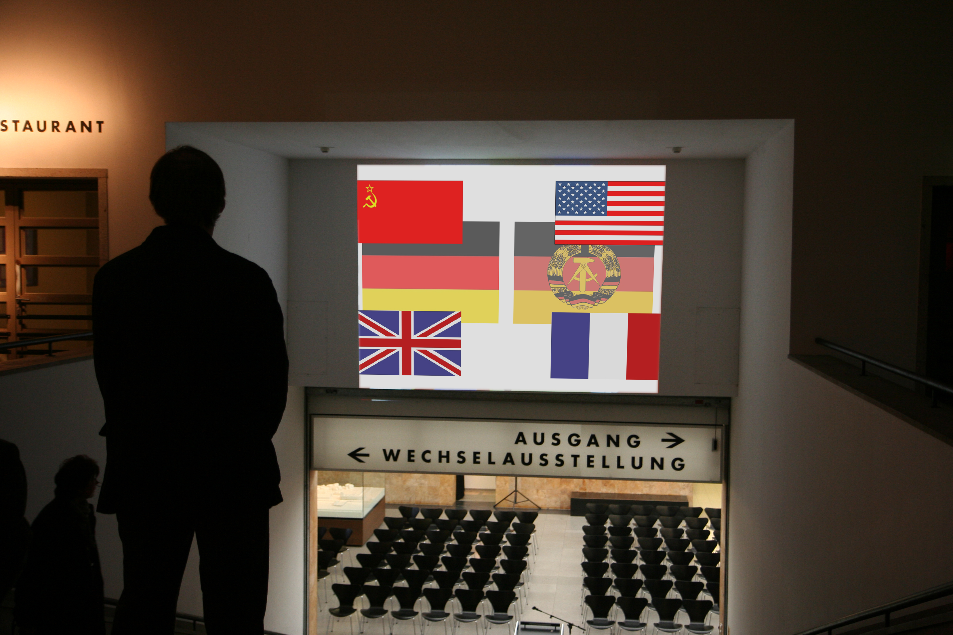 Flag Metamorphoses at the exhibition 'Nothing to declare', Zeppelin Museum Friedrichshafen, Germany, April - June 2008